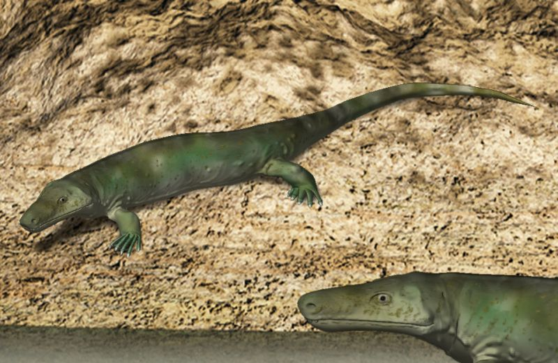 Limnoscelis paludis, a diadectomorph from the Early Permian of New Mexico. Digital.